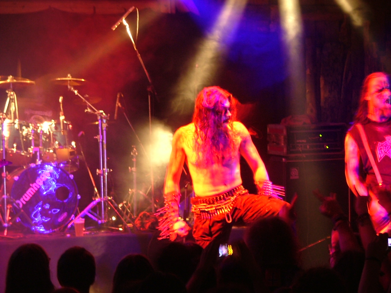 German black metal band Endstille